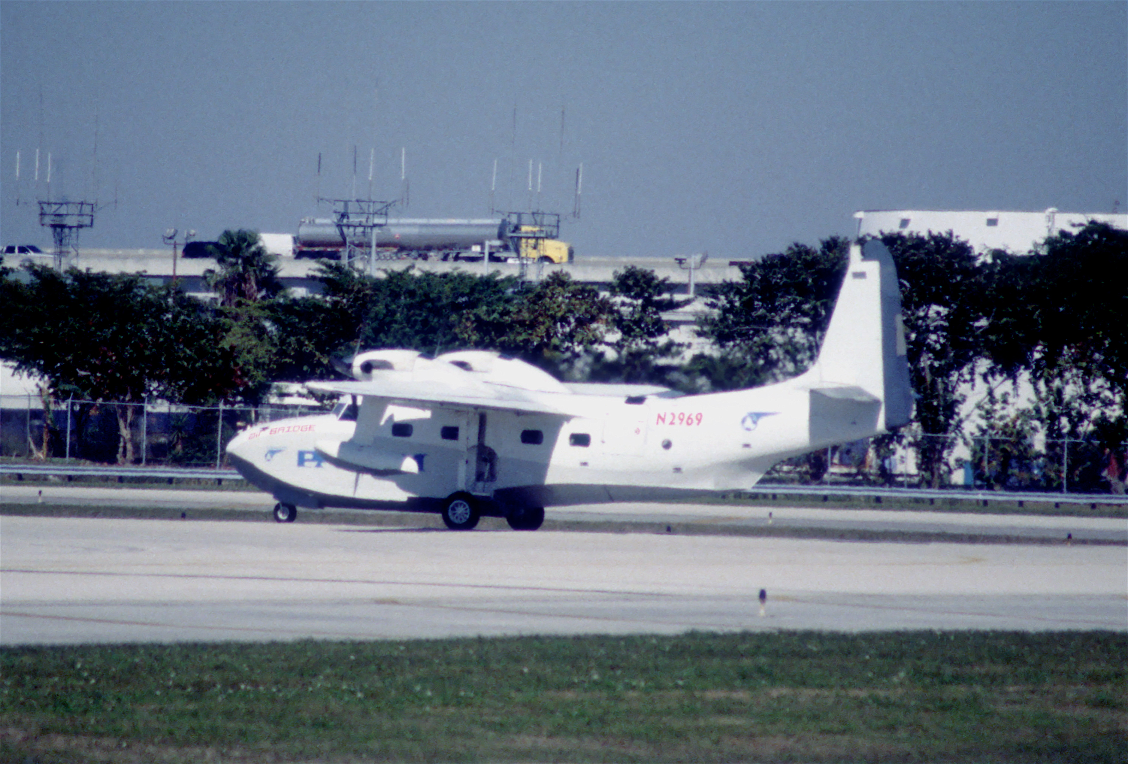 11dq - Pan Am Air Bridge Grumman G-73 Turbo Mallard; N2969@FLL;30.01.1998